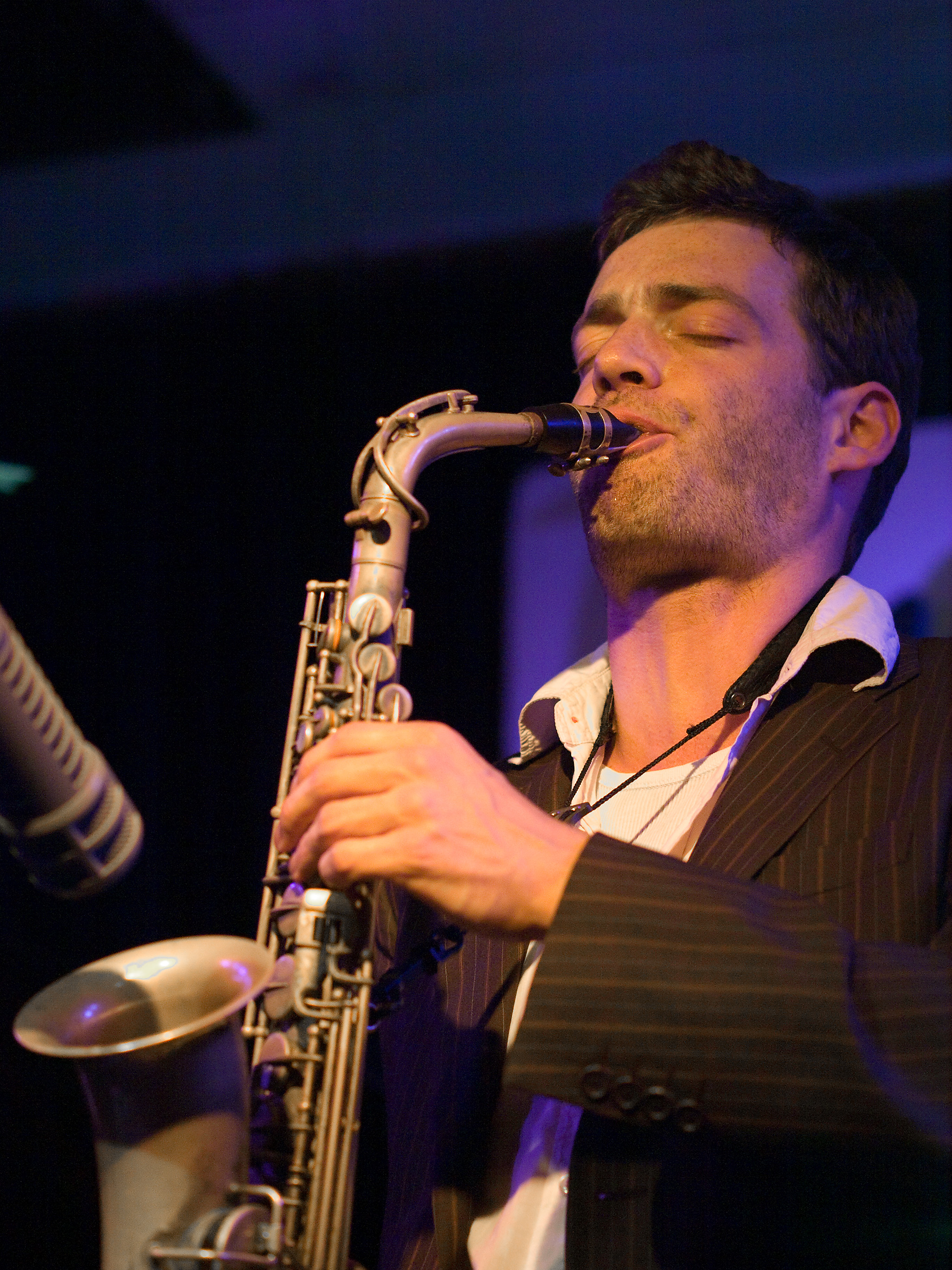 Christian Weidner, jazz saxophonist; Picture taken in Jazz Club Unterfahrt, Munich/Bavaria